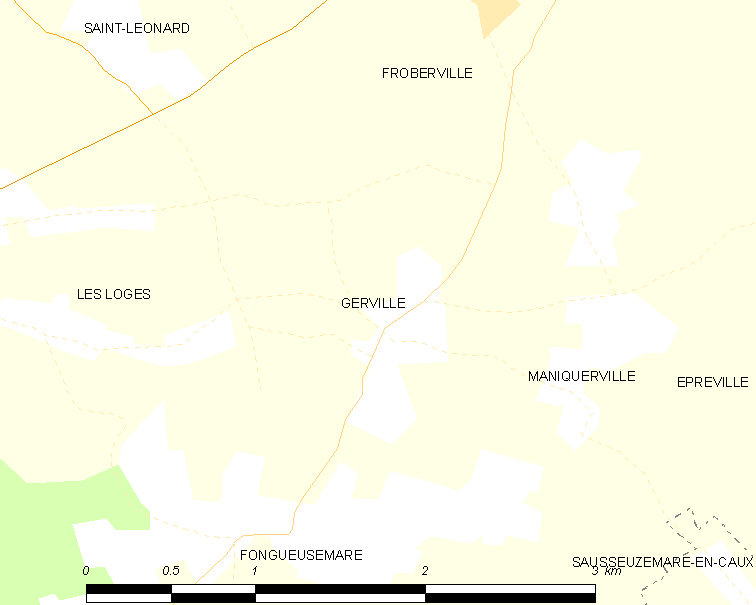 Map of French municipality Gerville